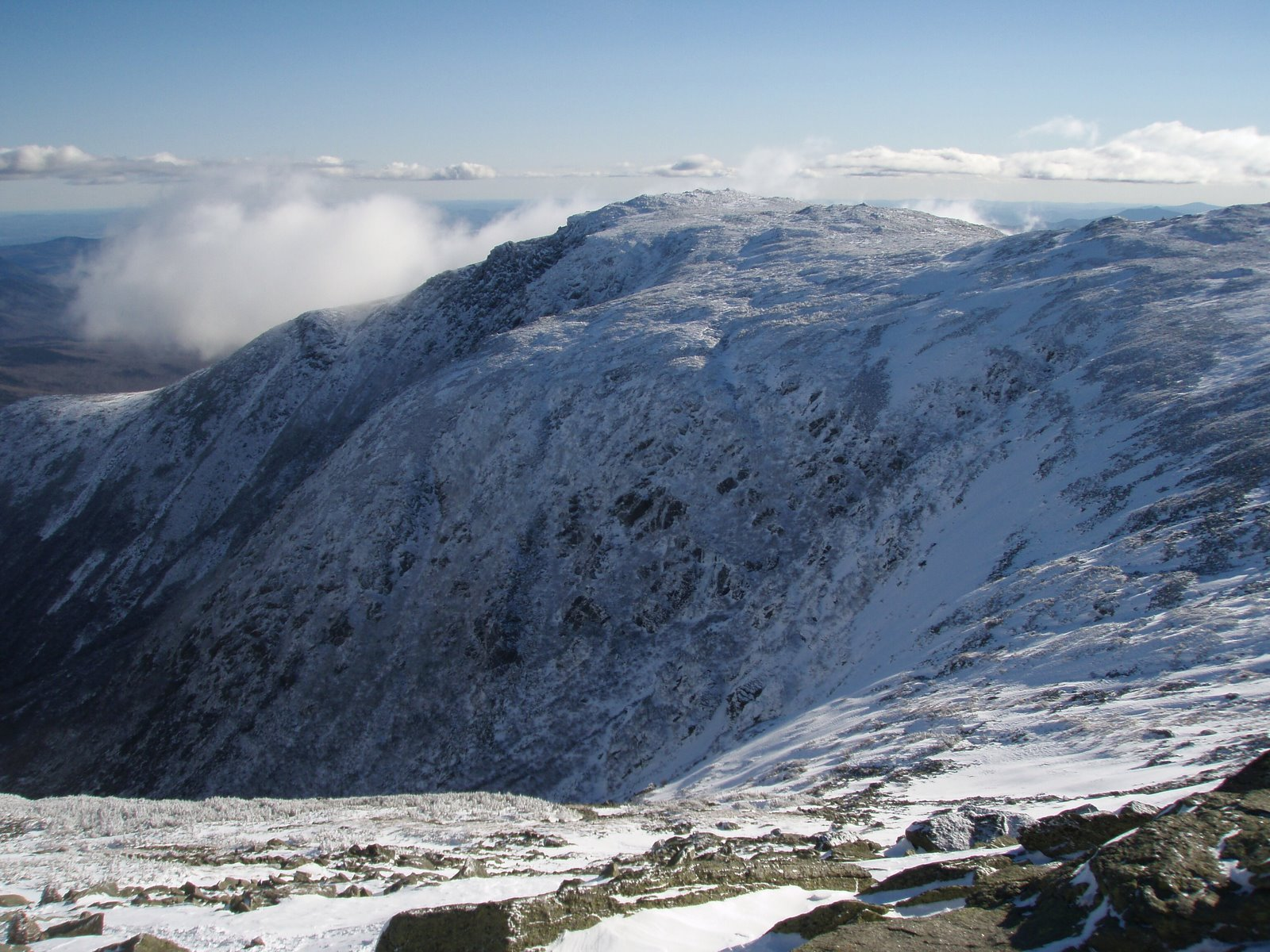 Late fall trip up Washington